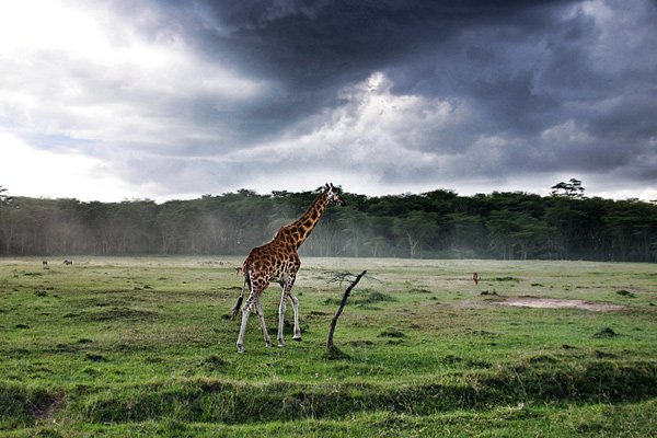 Dmitri Markine (self) Picture was taken at Lake Nakuru, before a rain.